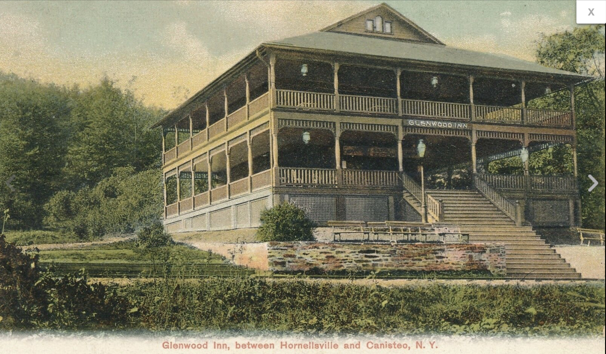 Located in the hamlet of South Hornell. Part of Hornell's leading entertainment complex, with a dance hall and skating rink. The Hornellsville-Canisteo electric trolley ran in front. Destroyed by fire in 1923.